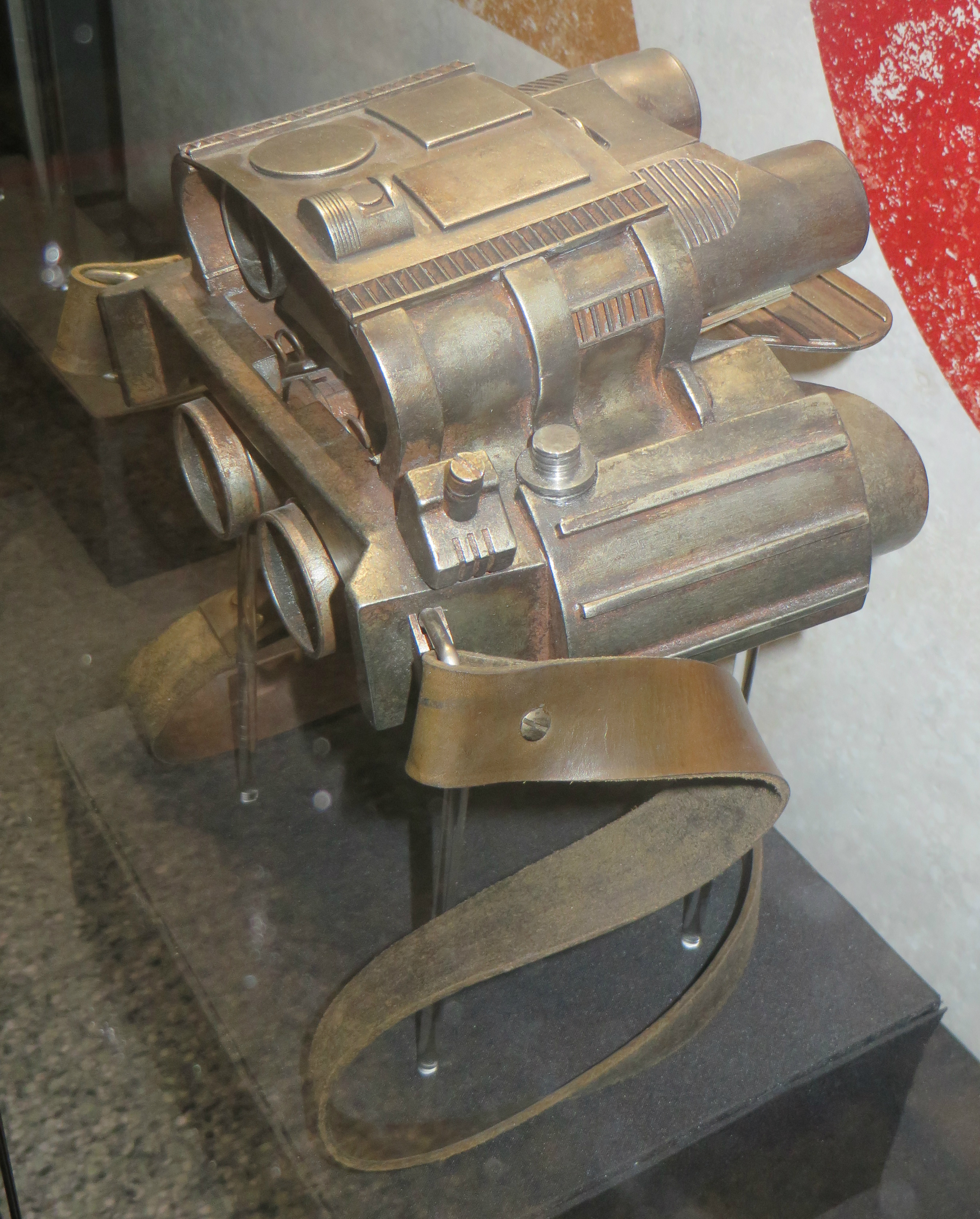 Poe Dameron's quadnoculars on display at Star Wars Launch Bay at Disney's Hollywood Studios.